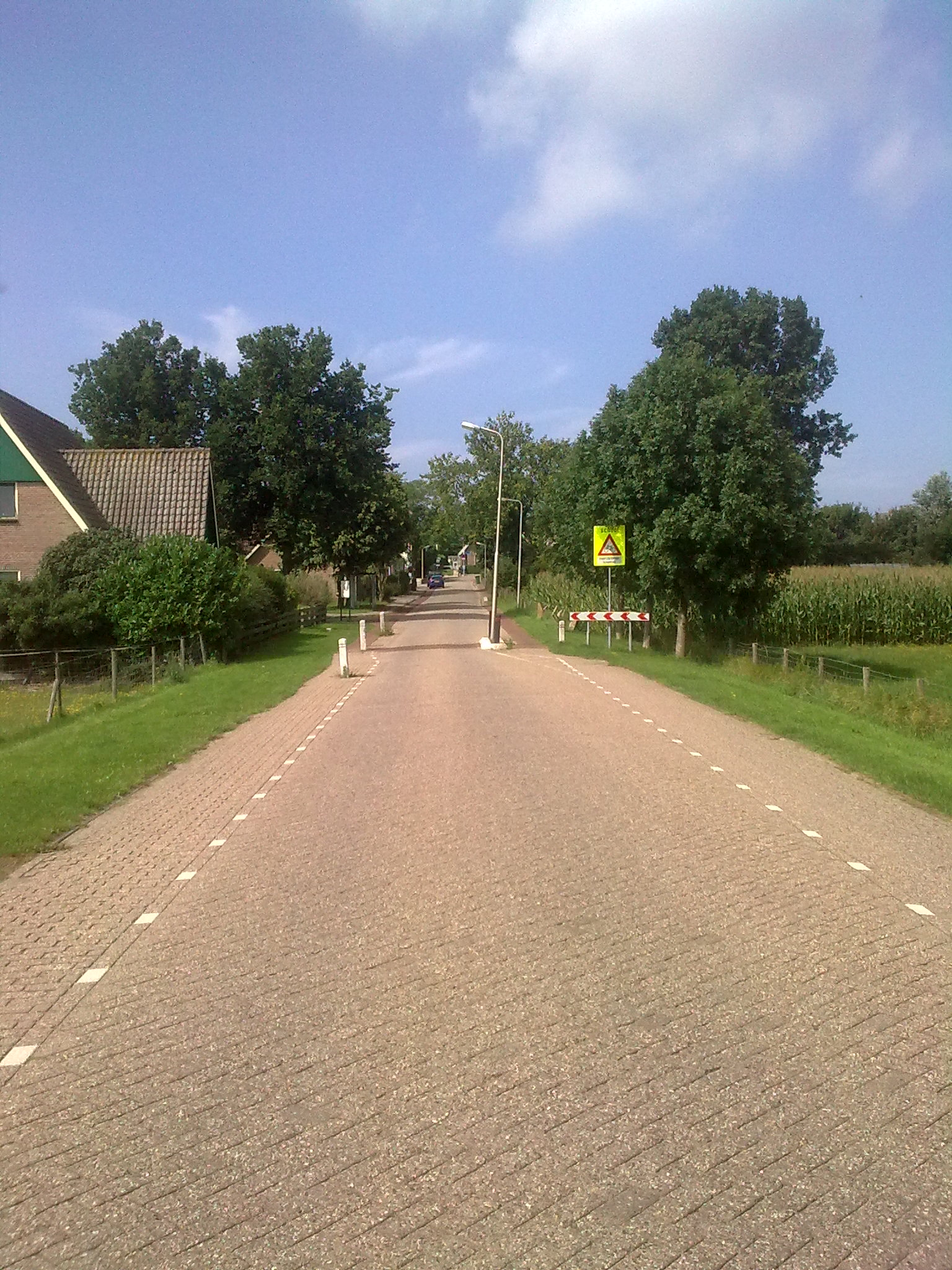 Dutch provincial road 240 (N240) in Westerland. Provinciale weg 240 (N240) in Westerland.